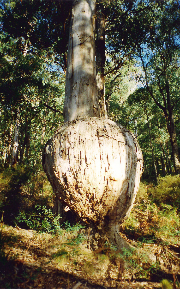 Bottle Tree. Eucalyptus cypellocarpa beside the Bonang Highway, The Gap Scenic Reserve, Vic, Australia